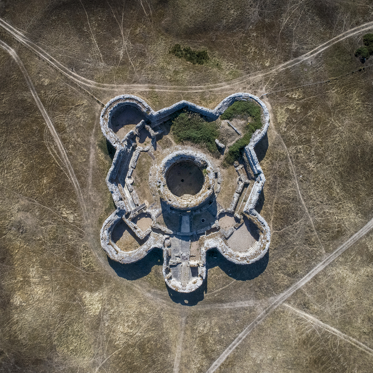 Aerial image of Camber Castle